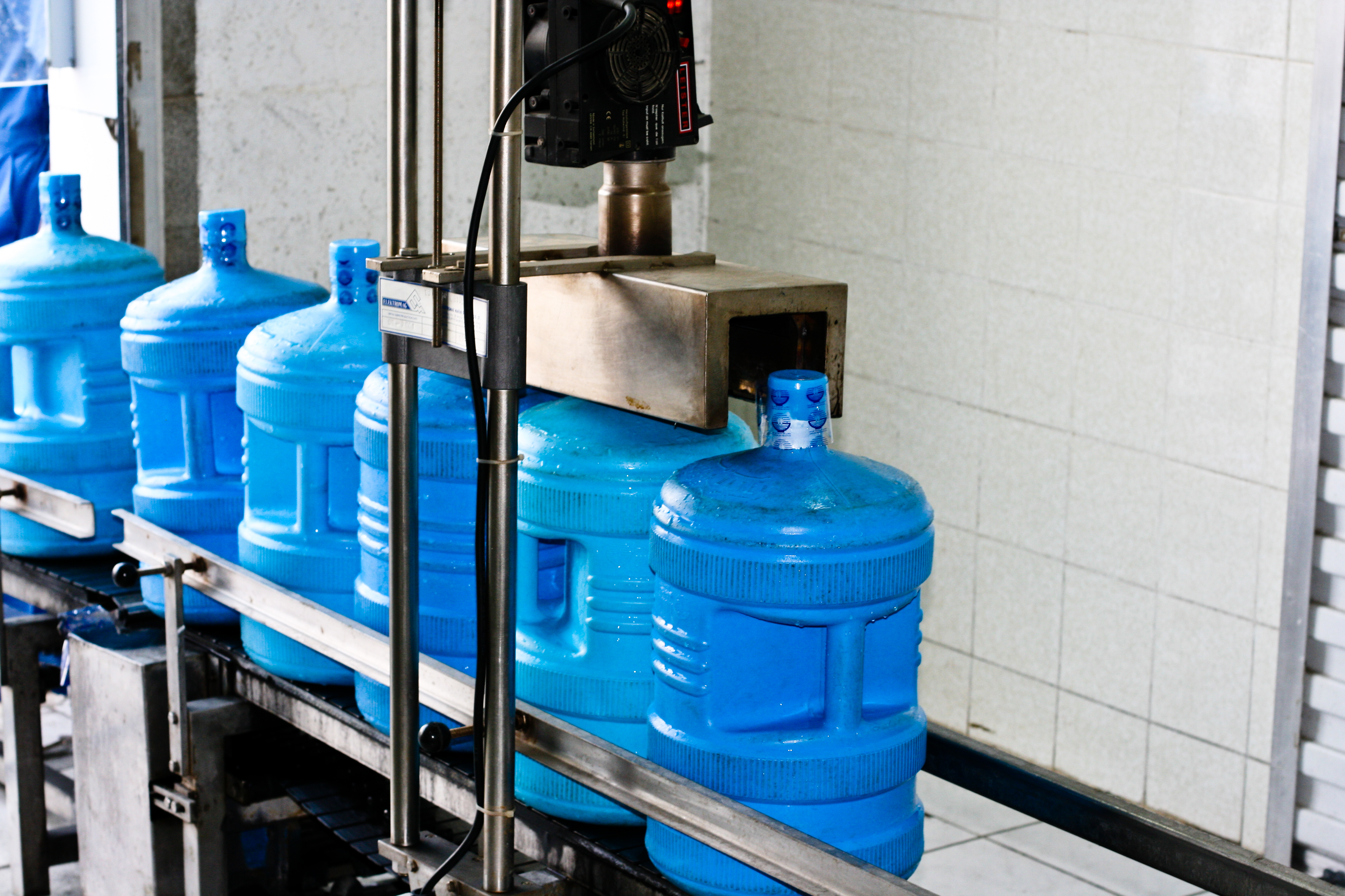 Bottled Zamzam water. Photo by Mohammed Adow